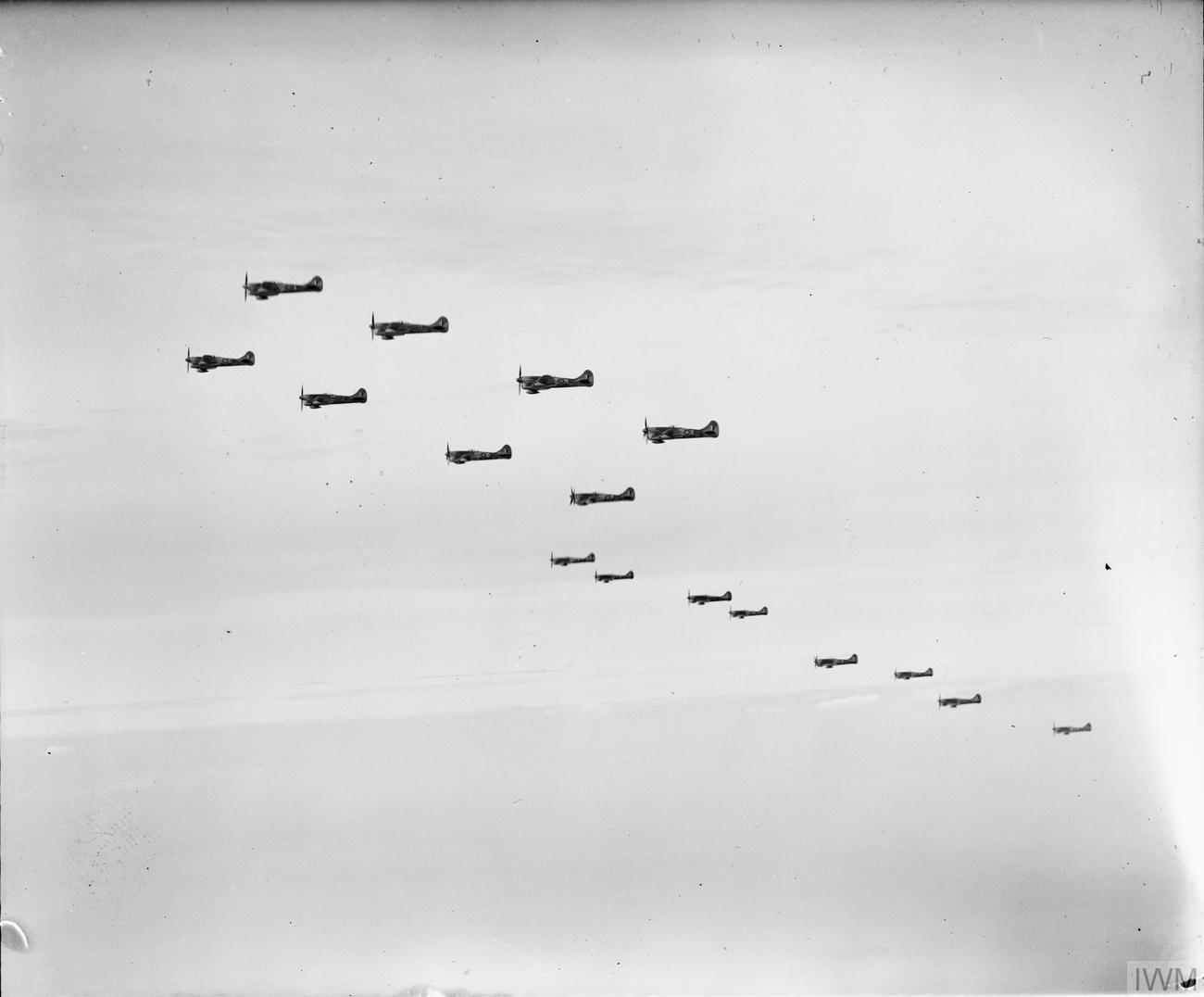 Royal Air Force- 2nd Tactical Air Force, 1943-1945. A formation of Hawker Tempest Mark Vs of No. 122 Wing returning to their base at B80/Volkel, Holland, after attacking enemy trains and transport east of the River Rhine. The eight nearest aircraft are from No. 80 Squadron RAF, the remainder from No. 486 Squadron RNZAF.